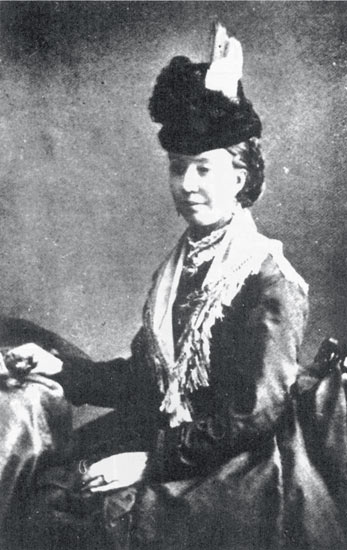 Photograph of Harriet Staunton, victim of the 1877 Penge Murder. Taken in 1875 at the time of her engagement to Louis Staunton